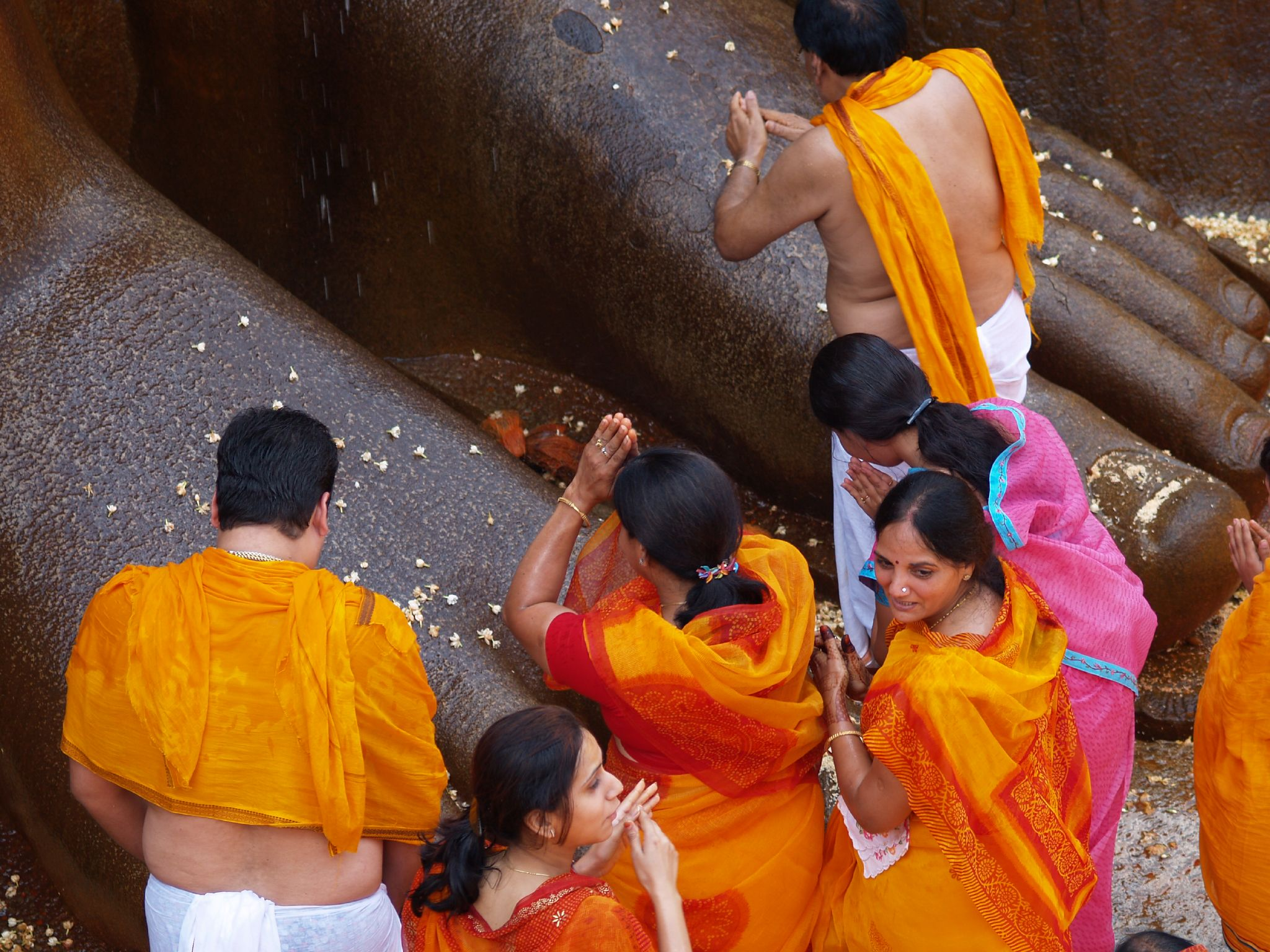 Jains praying at the feet of Lord Bahubali, the world's largest monolithic statue.